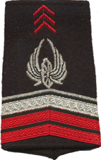 Sleeve shoulder Master Corporal Train (France).